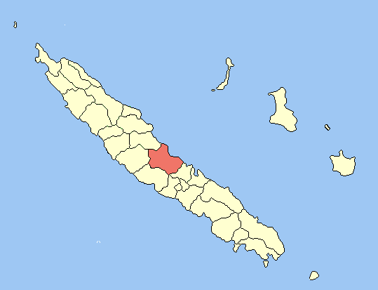 Created map myself.